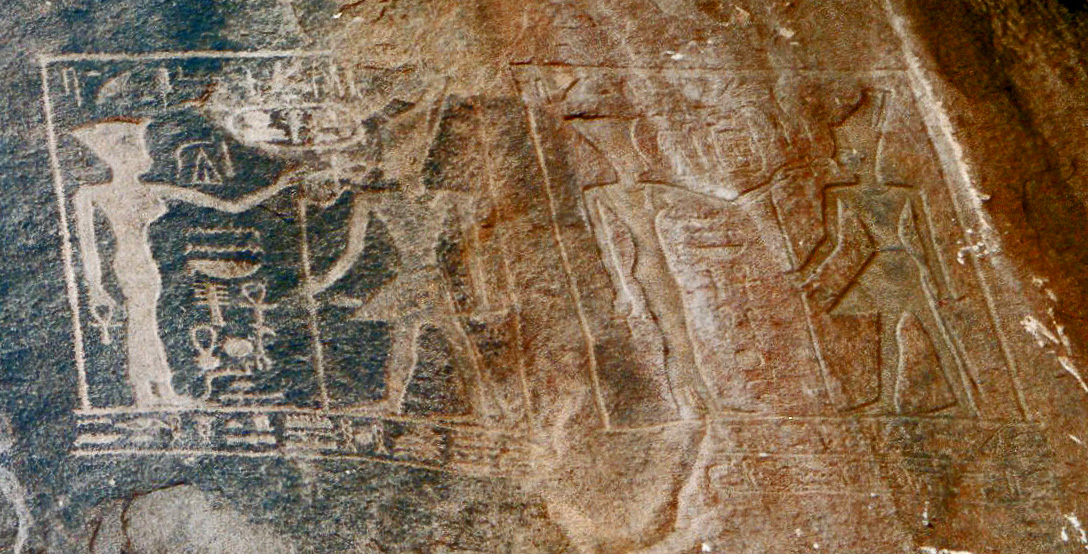 Relief of Neferhotep I Khaskhemre on Sehel Island. To the right of the picture, we can see first, a graffiti showing the king Senusert III against the goddess Anuket, the patron deity of this region of the first cataract. On the left, an exact copy of that same engraving, made ​​during the reign Khasekhemre 'Neferhotep I. Clearly, with the latter graffiti, King Neferhotep I wanted to associate with the memory of his illustrious ancestor of the Twelfth Dynasty.